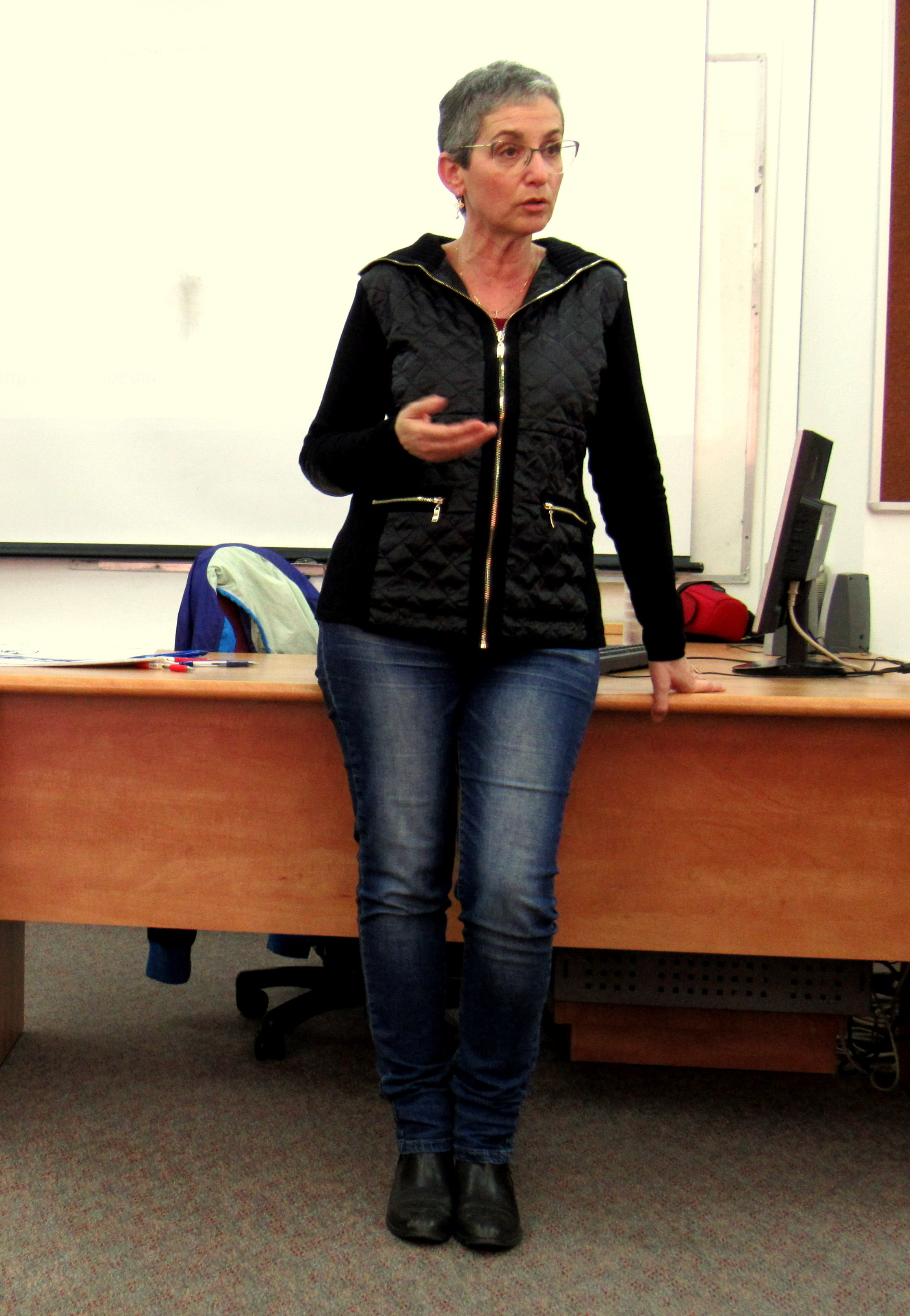 Prof. Daphne R. Raban. Taken at the Western Galilee College library during a Wikimedia Israel 1Lib1Ref workshop, April 25 2018 - surprisingly for that time of the year, a very rainy day